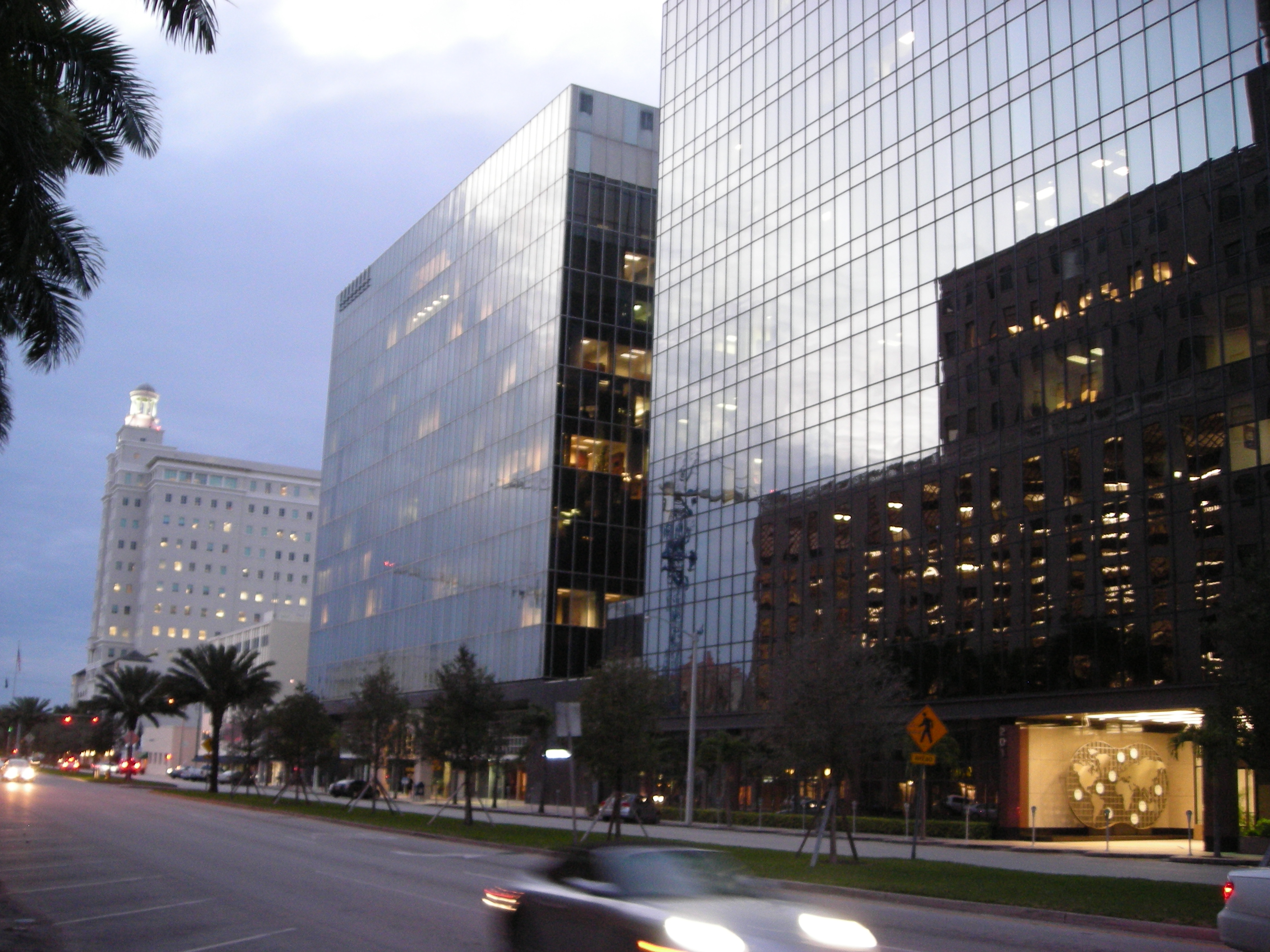 Alhambra Circle in the Miracle Mile neighborhood of Coral Gables